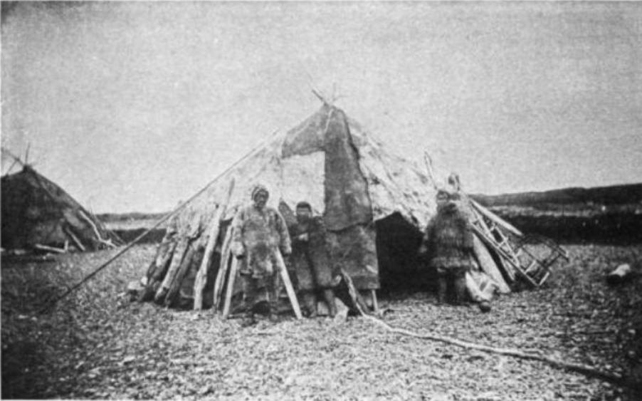 A Chukchi yaranga at Cape Vankarem on the arctic coast of Chukotka, Russia, 1881. Three individuals (2 men 1 woman) in fur clothing stand in front of the dwelling.